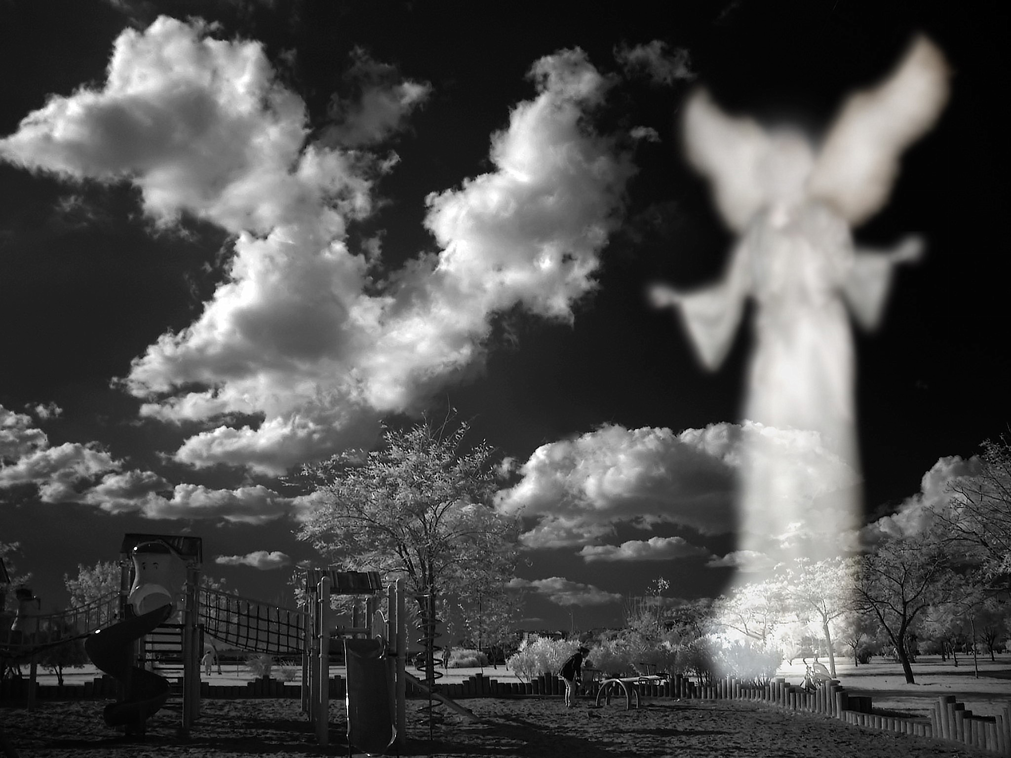 Angel This is a retouched picture, which means that it has been digitally altered from its original version.